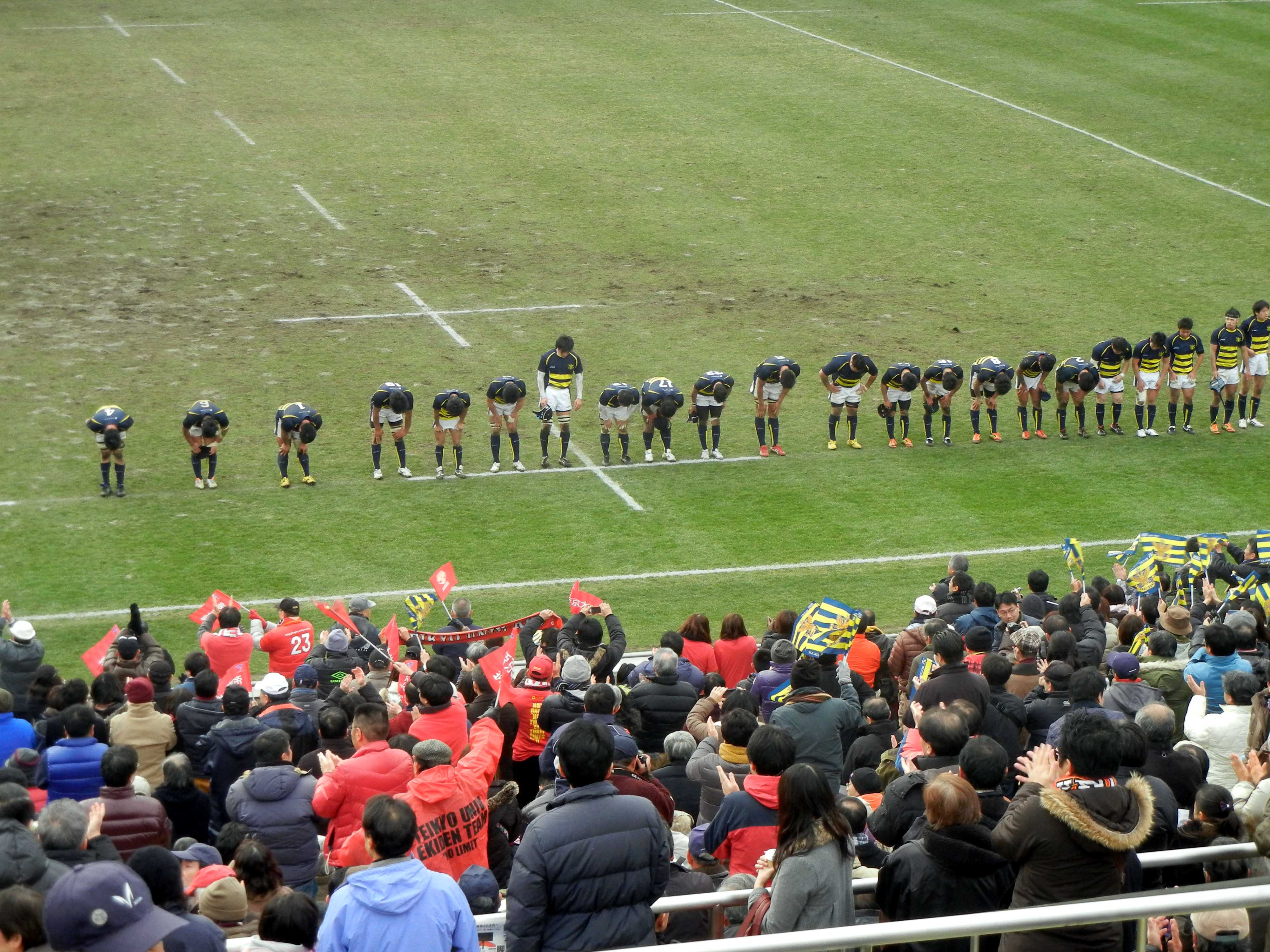 Ritsumeikan University Rugby Football Club Players